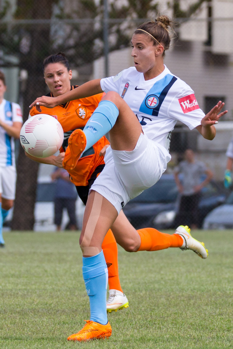 Stephanie Catley